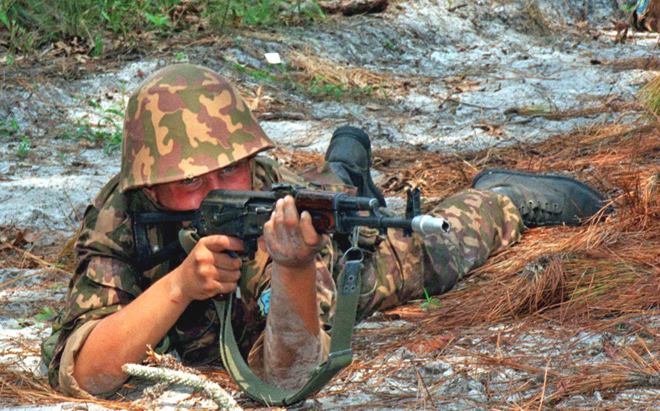 A Kazakh soldier lies in a prone position aiming his AK-74 assault rifle with a folding stock (AKS-74) during Situational Training Exercise-6, "mine awareness", part of Operation COOPERATIVE OSPREY Õ96 held at Camp Lejeune NC.